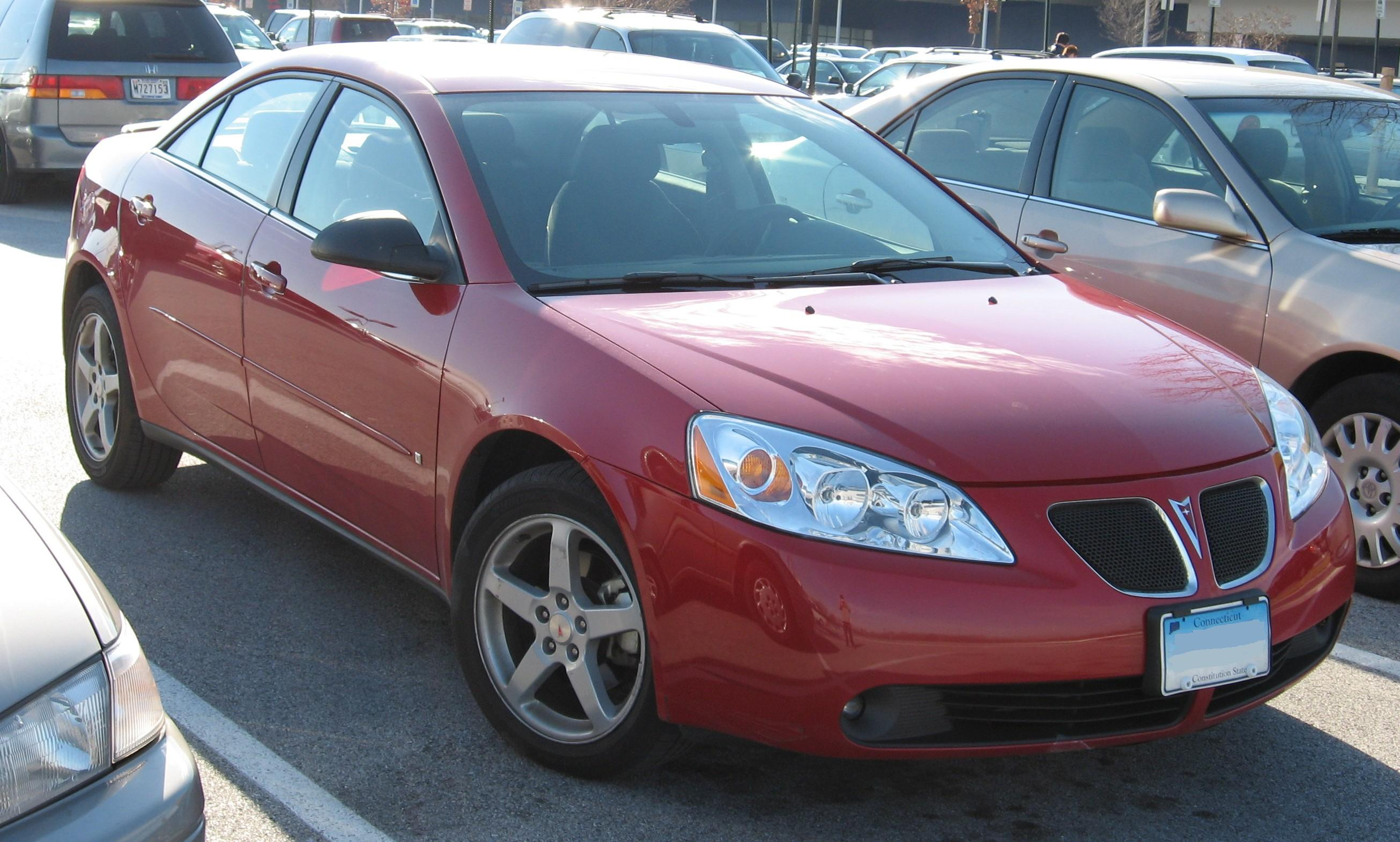 2005-2007 Pontiac G6 photographed in USA.